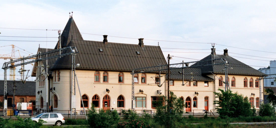 Halden railway station, Norway. Erected 1879. Architect: Peter A. Blix.